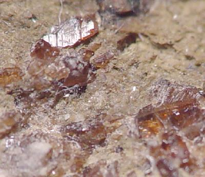 Alleghanyite Locality: Sterling Mine, Sterling Hill, Ogdensburg, Franklin Mining District, Sussex County, New Jersey, USA (Locality at ) Alleghanyite is an exceptionally rare member of the humite group, and this specimen is unusually rich with gemmy brown microcrystals to 2 mm flatlaying along an approximately 3-cm vertical axis on this specimen . The matrix is a typical mix of franklinite/calcite/willemite and is highly fluorescent. 11 x 6.5 x 4 cm